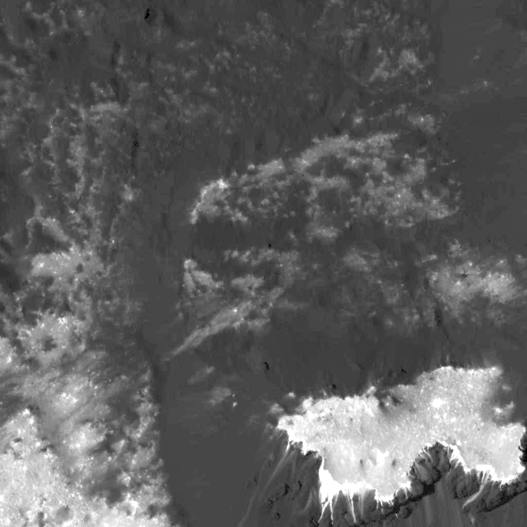 Prominent Mound in Ceres' Cerealia Facula Region click here for Figure 1 for PIA22477 click here for Figure 2 for PIA22477 This mosaic of a prominent mound located on the western side of Cerealia Facula was obtained by NASA's Dawn spacecraft on June 22, 2018 from an altitude of about 21 miles (34 kilometers).The geometry of this feature is similar to a mesa or large butte with a flat top. It has been puzzling scientists since its discovery in the early images of the Dawn mission at Ceres. These new images reveal many details. In particular, the relationships between the bright material, mostly composed of sodium carbonate, and the dark background might hold clues about the origin of the facula. This feature is located at about 19.5 degrees north latitude and 239.2 degrees east longitude. Dawn's mission is managed by JPL for NASA's Science Mission Directorate in Washington. Dawn is a project of the directorates Discovery Program, managed by NASA's Marshall Space Flight Center in Huntsville, Alabama. JPL is responsible for overall Dawn mission science. Orbital ATK Inc., in Dulles, Virginia, designed and built the spacecraft. The German Aerospace Center, Max Planck Institute for Solar System Research, Italian Space Agency and Italian National Astrophysical Institute are international partners on the mission team.For a complete list of Dawn mission participants, visit more information about the Dawn mission, visit